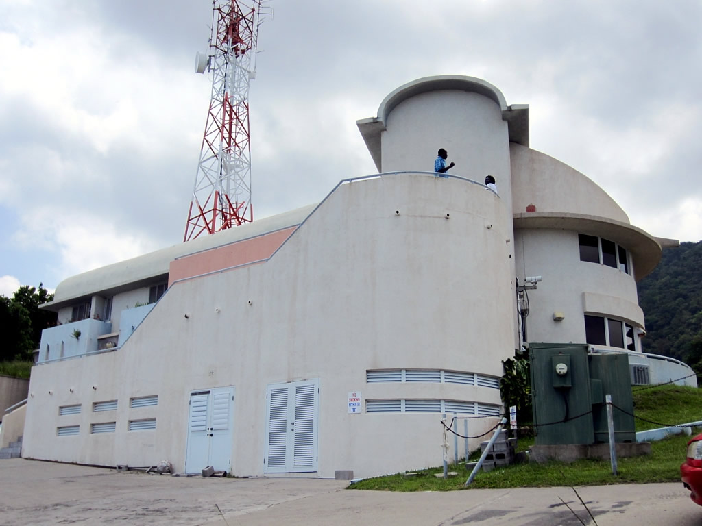 A film on the eruptions is shown at the Montserrat Volcano Observatory.